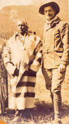 Julius Seyler and Blackfoot chief Jack Big Moon 1914 in Glacier Park Blackfeet Reservation.